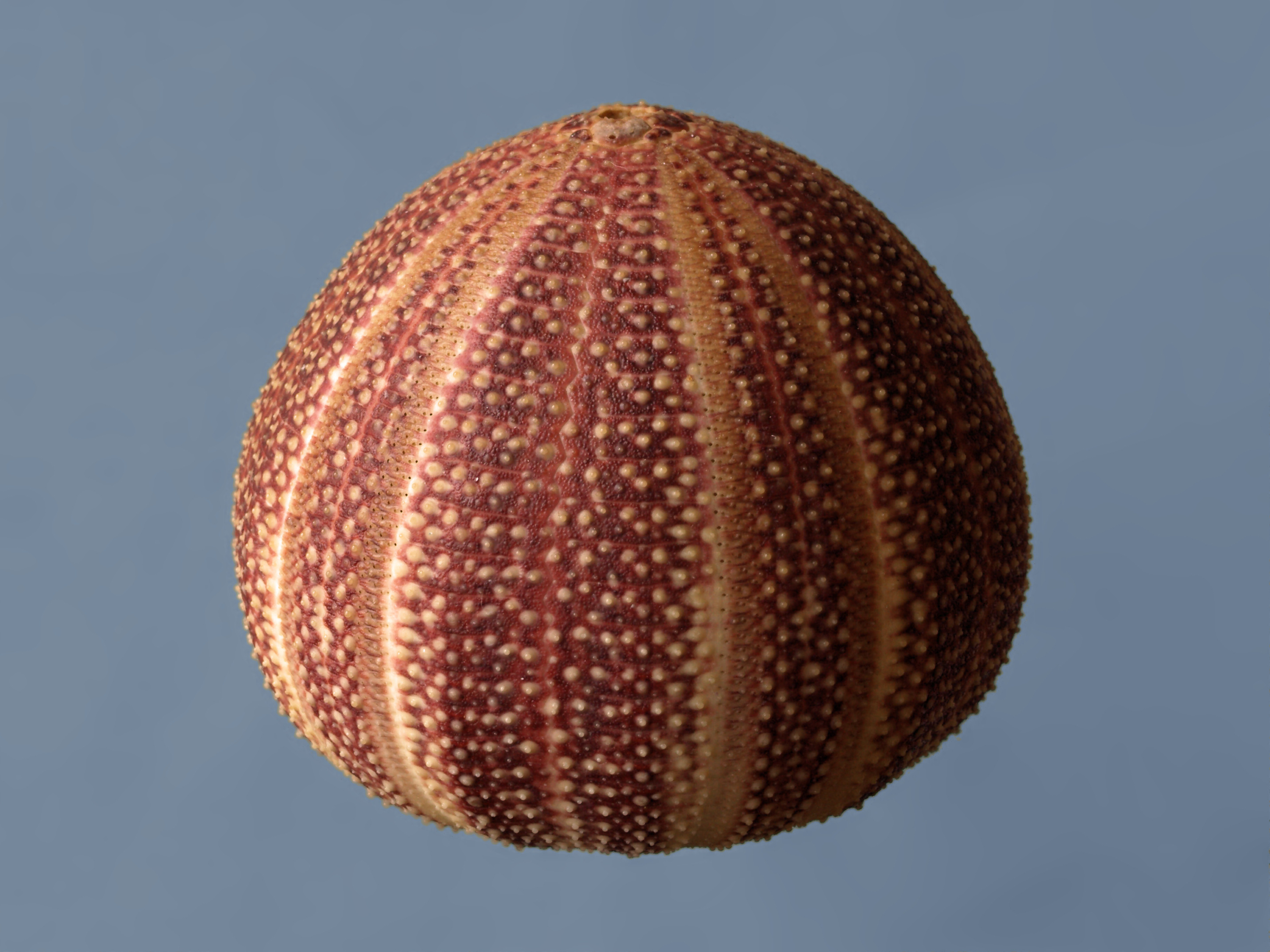 A corona of the sea-urchin Echinus esculentus.